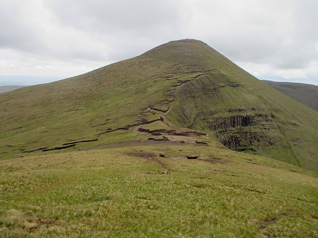 The east shoulder of Galtymore summit and the cliffs of its north face